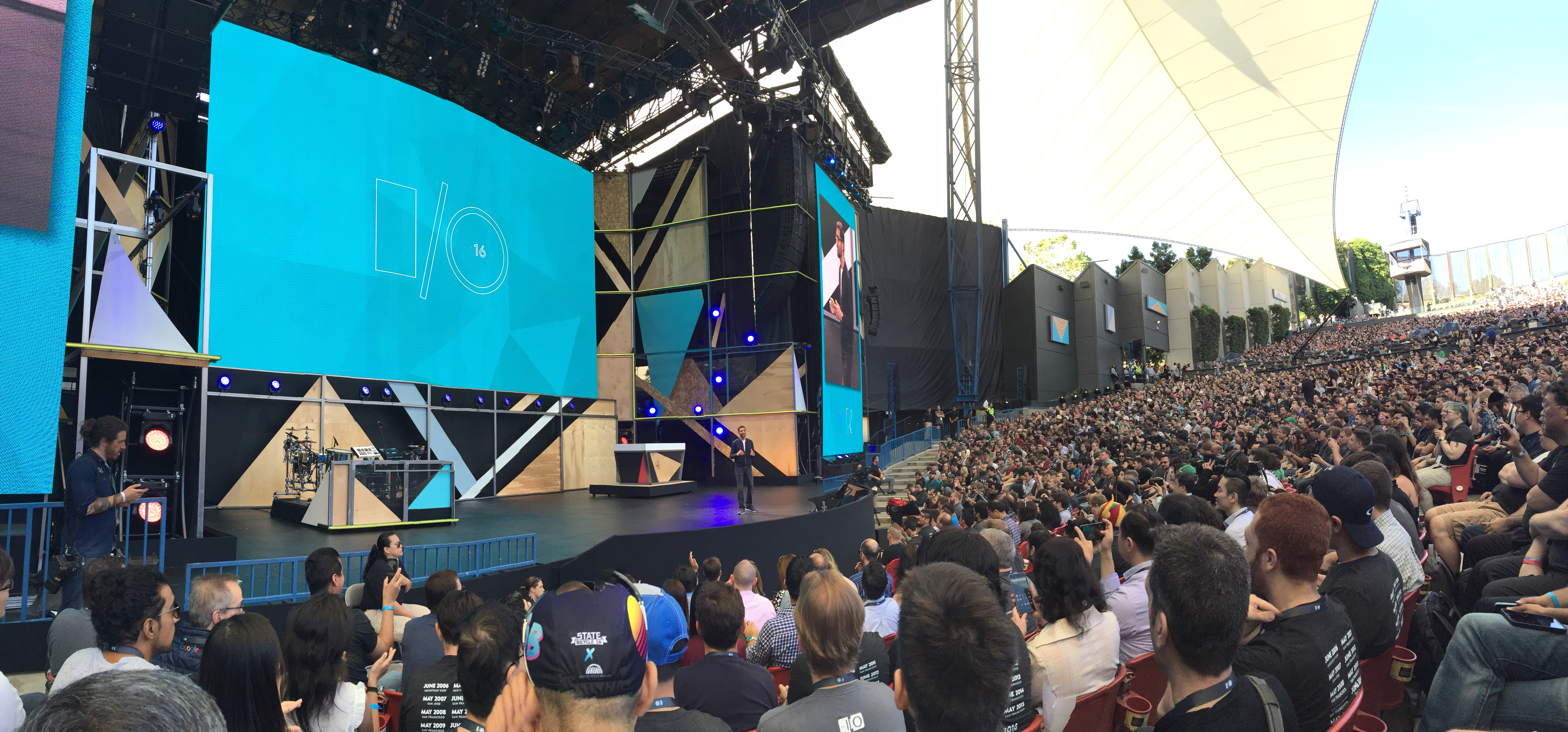 Google IO 2016 Keynote, Shoreline Amphitheatre